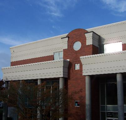 Willamette University College of Law Salem southside